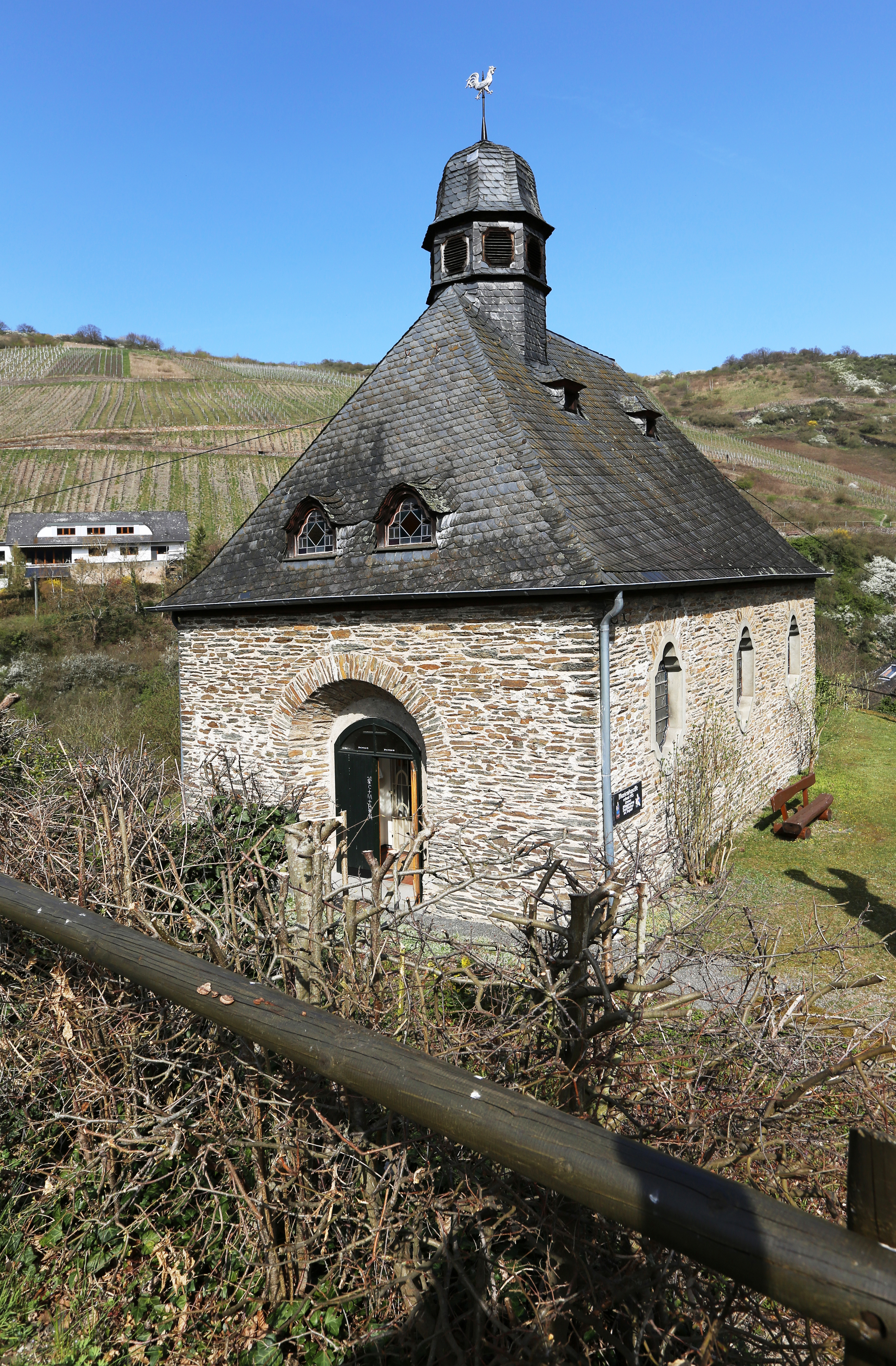 Chapel Our Lady of Sorrows, Roman Catholic Church (branch church) – Filialkirche zur Schmerzhaften Muttergottes – Am Kapellenberg, quarrystone aisleless church built 1923–1925. Engehöll (Oberwesel), Rhineland-Palatinate, Germany